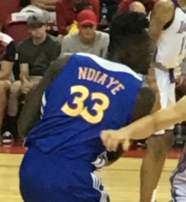 Ndiaye playing for Golden State at NBA Summer League